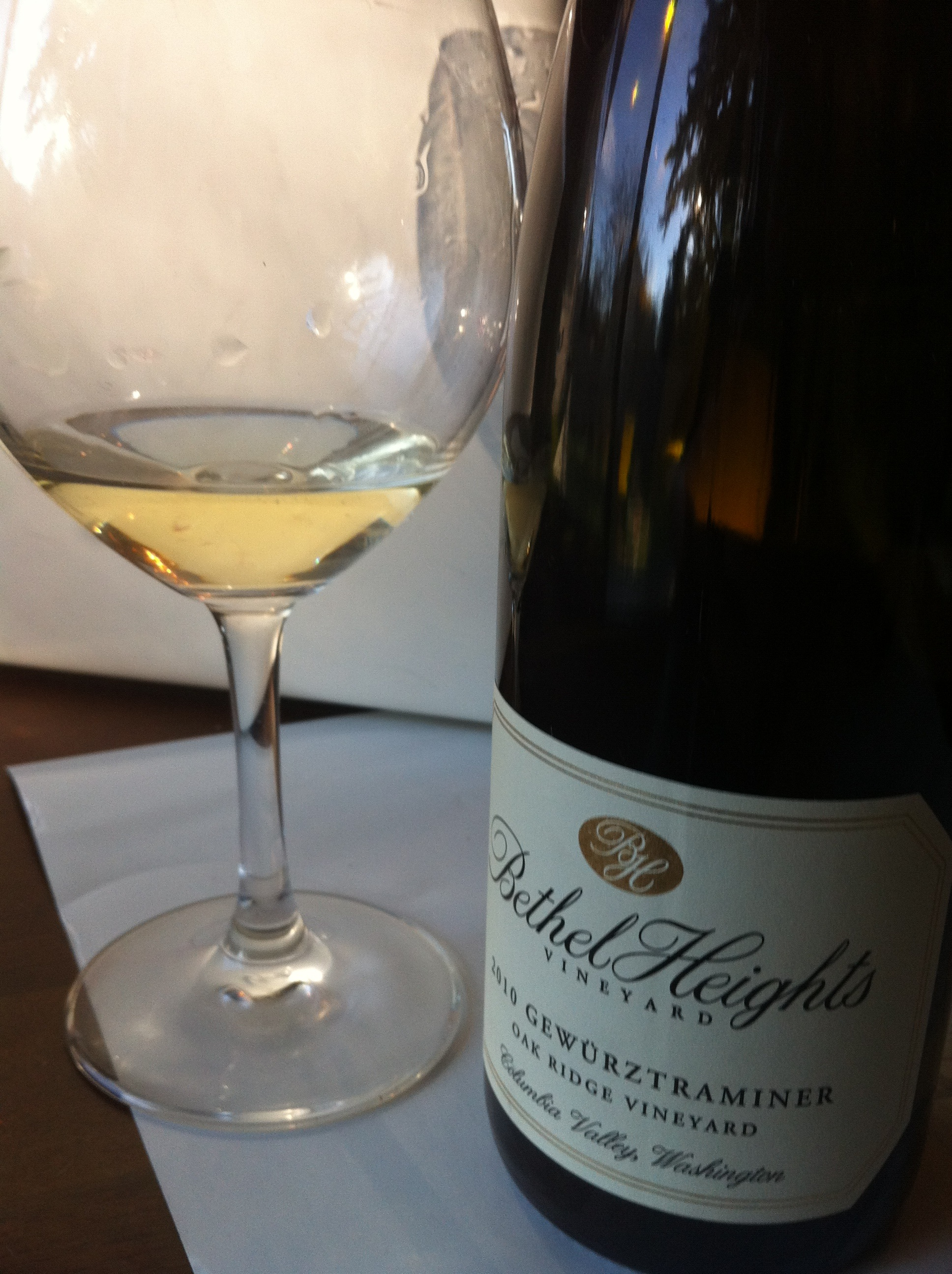 Gewürztraminer made from grapes grown in the Columbia Valley of Washington and made in Oregon